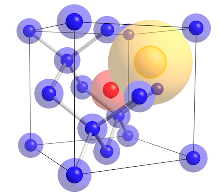 Figure 3: View B of Nitrogen-vacancy Center